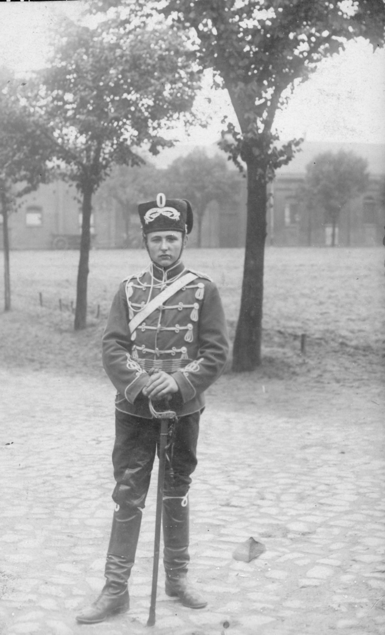 Hussar of the Prussian Hussar Regiment Queen Wilhelmina of the Netherlands (Hanovarian) No. 15, Wandsbeck (today City of Hamburg). Field postcard from the Hussar Gerhard Wiechmann (1895-1978), Wandsbeck, from septembre 17th 1914 to his brother Johann, monastry Blankenburg near Oldenburg (Oldenburg). He wears the so-called Friedensuniform (peace uniform) with a light blue coat and black blue trousers.